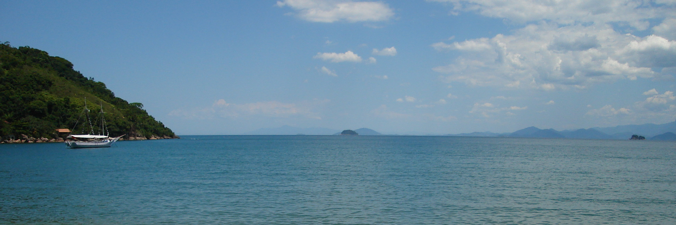 Picinguaba, Ubatuba, São Paulo, Brazil.